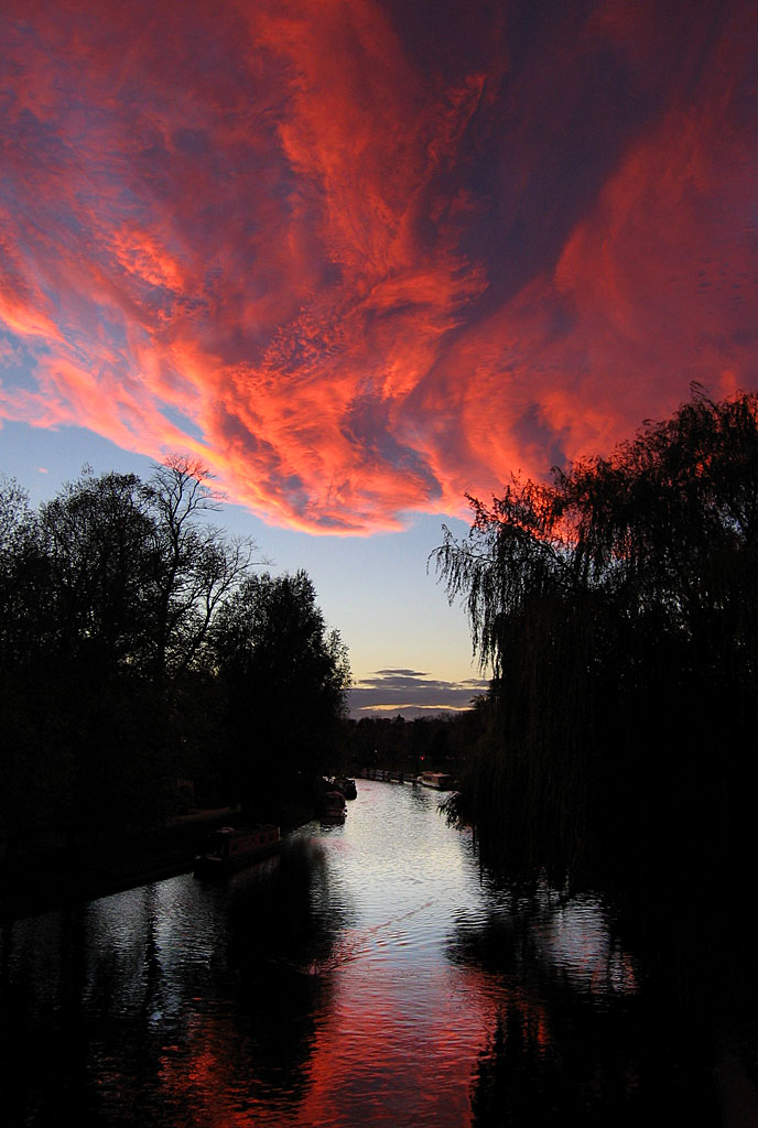 Sunset over the River Cam in Cambridge.